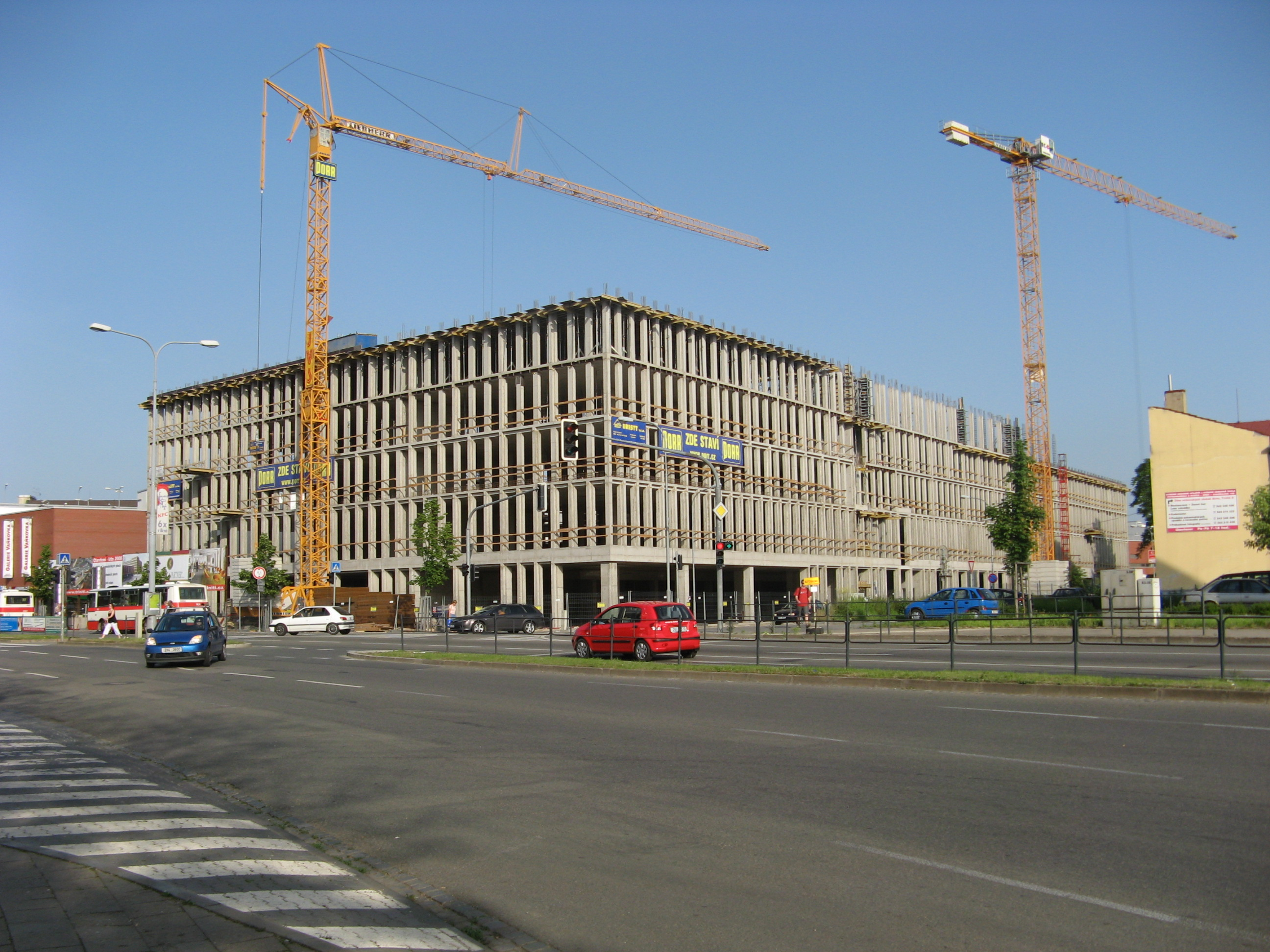 Triniti office center, Brno - Czech republik